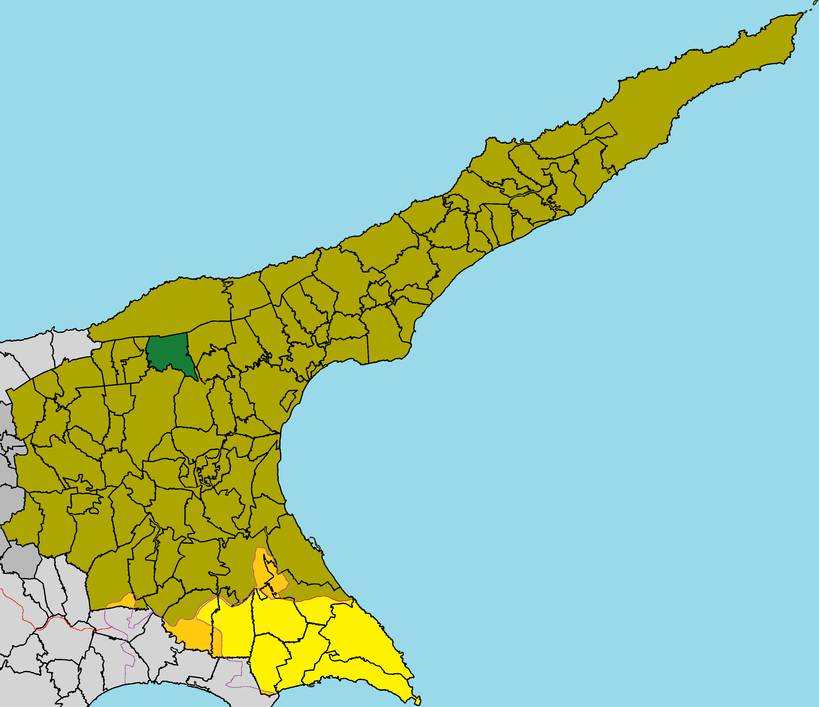 Platani in Famagusta District (de jure).